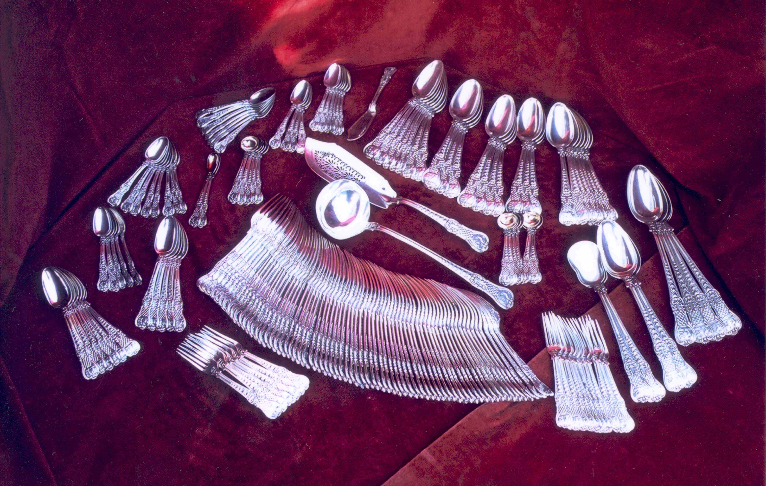 A set of silver Coburg-pattern cutlery with the Bisse-Challoner crests.